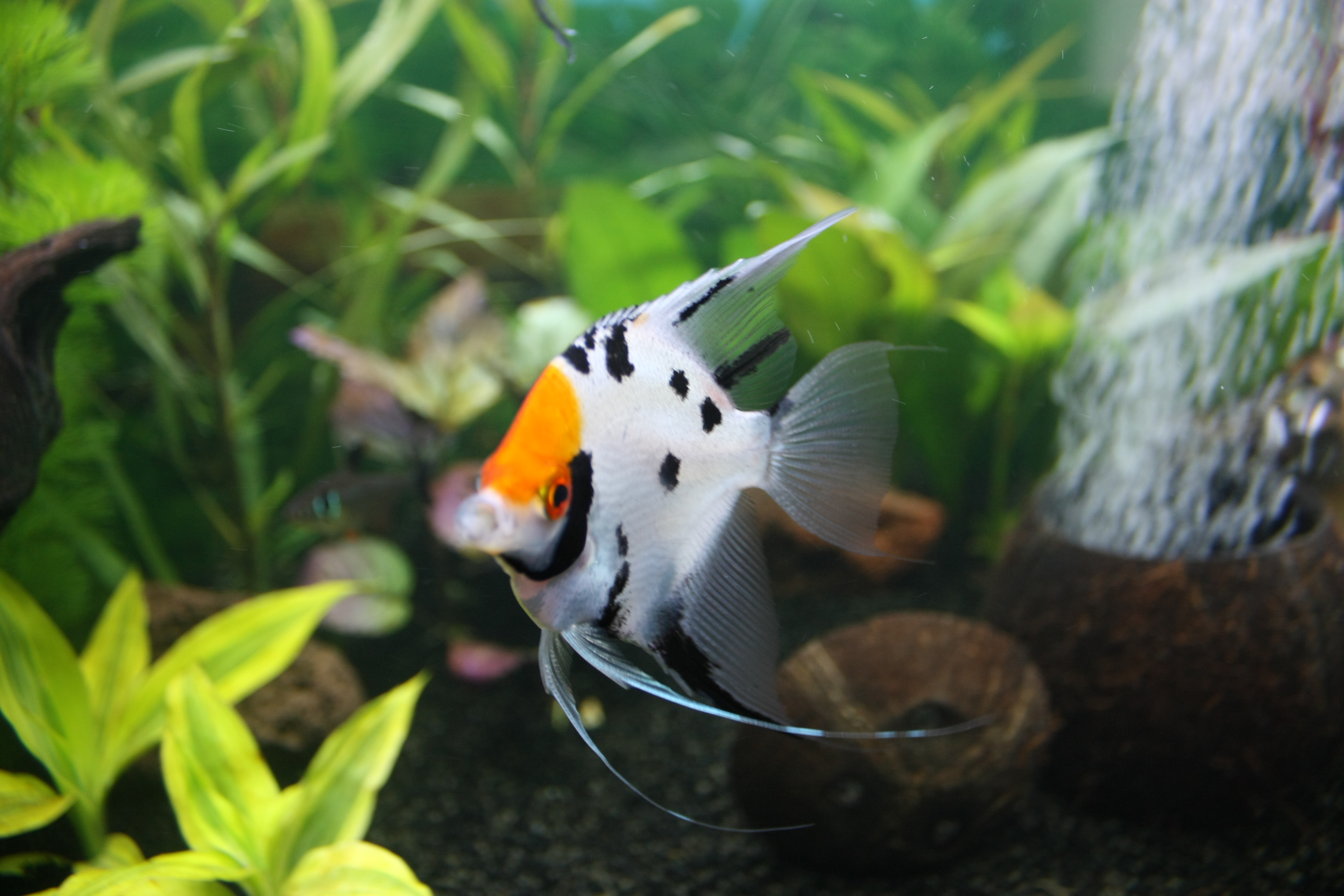 Pterophyllum scalare